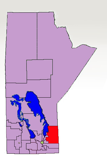 The 1998-2011 boundaries for the Lac du Bonnet electoral district highlighted in red